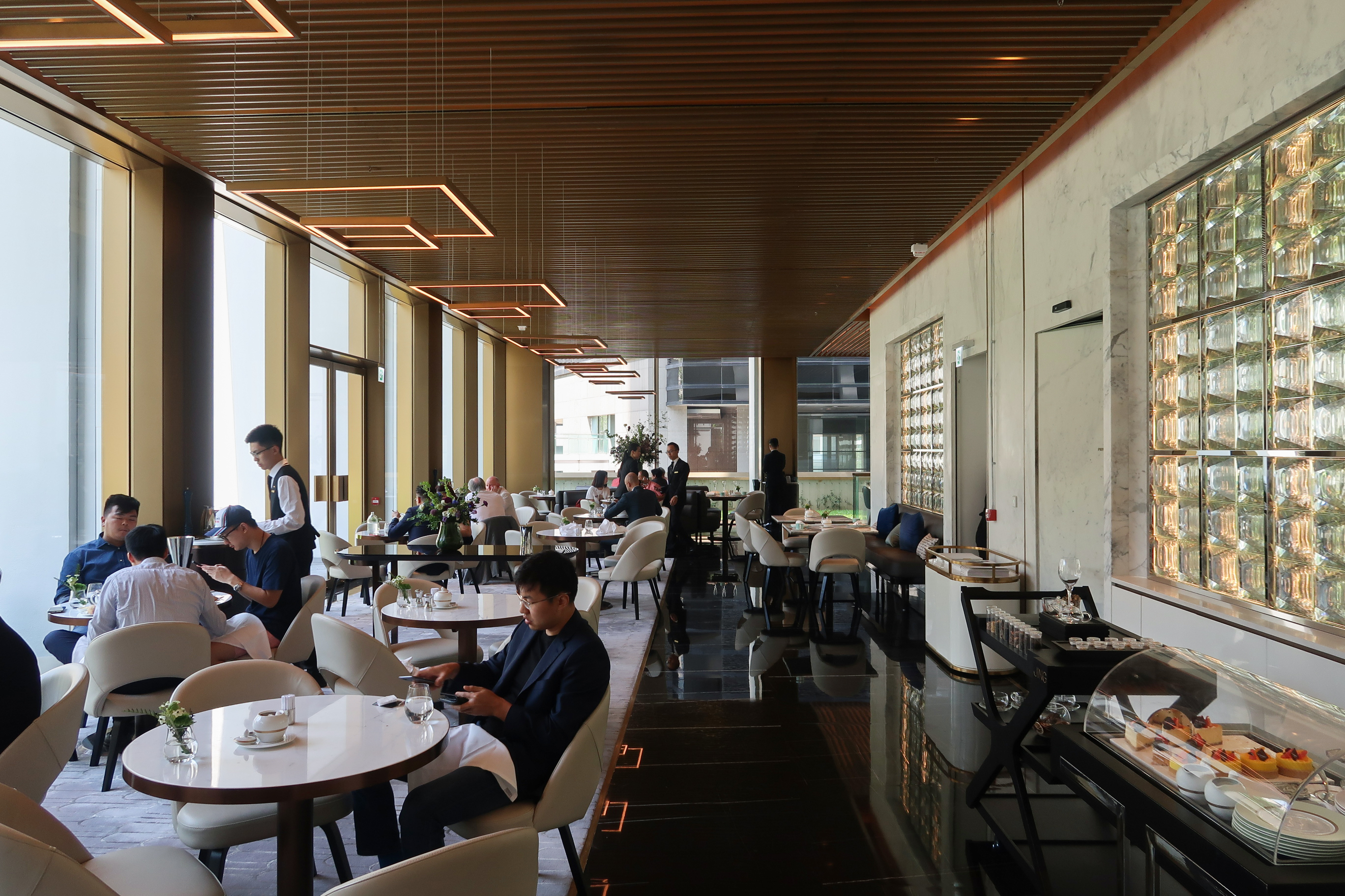 The Murray Garden Lounge